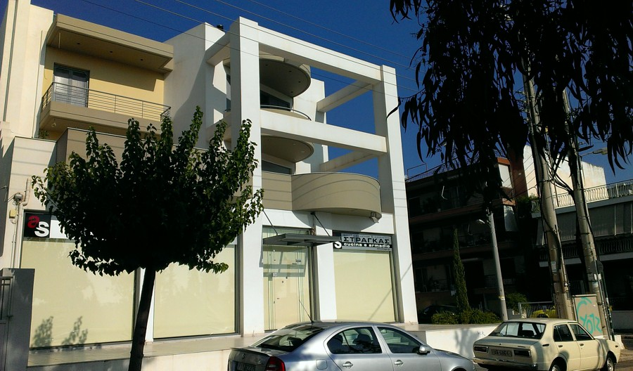 buildings